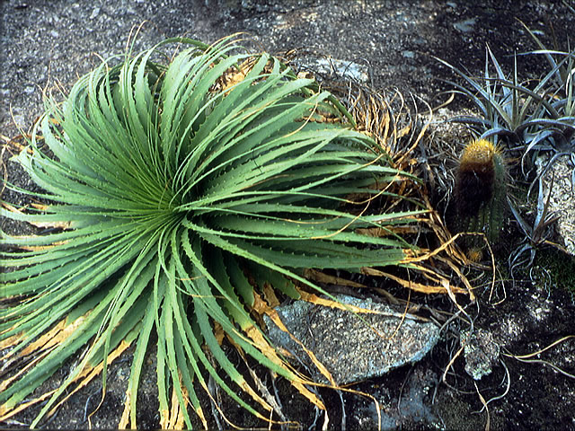 Encholirium horridum in Brazil, without exact location data.